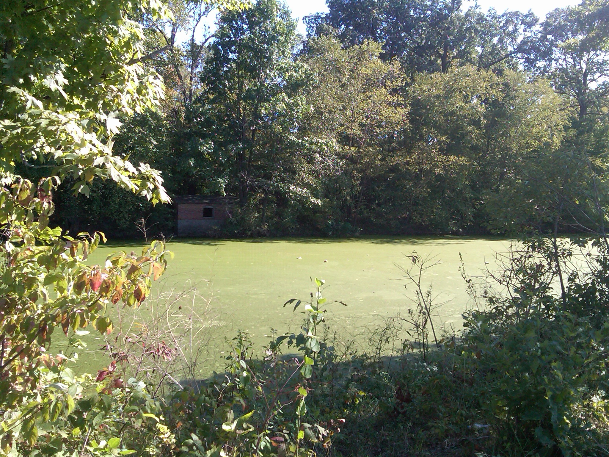 Wabash Erie Canal near Francisco Indiana 2010